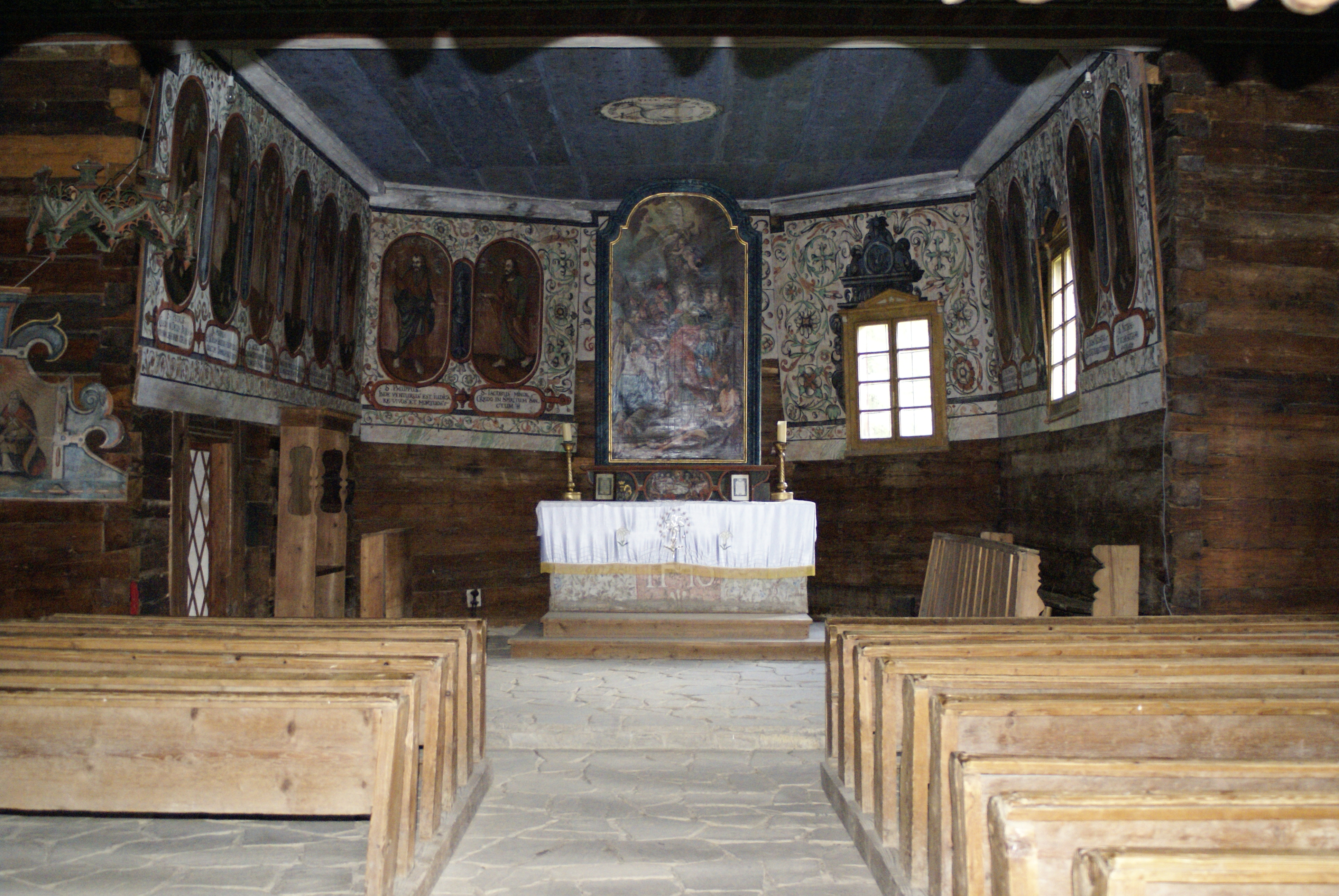 Open air museum of typical slovakian old Orava village, Zuberec, West Tatras, Slovak Republic